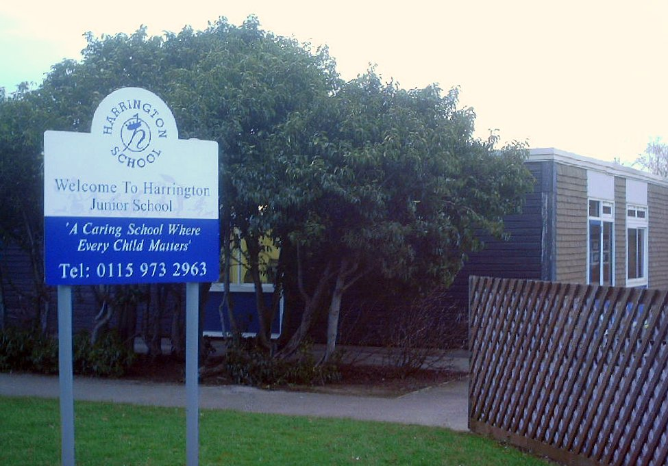 Sign for Harrington Junior School on the same site as Wilsthorpe Business and Enterprise College - a secondary school in Derbyshire but in Long Eaton a residential suburb of Nottingham